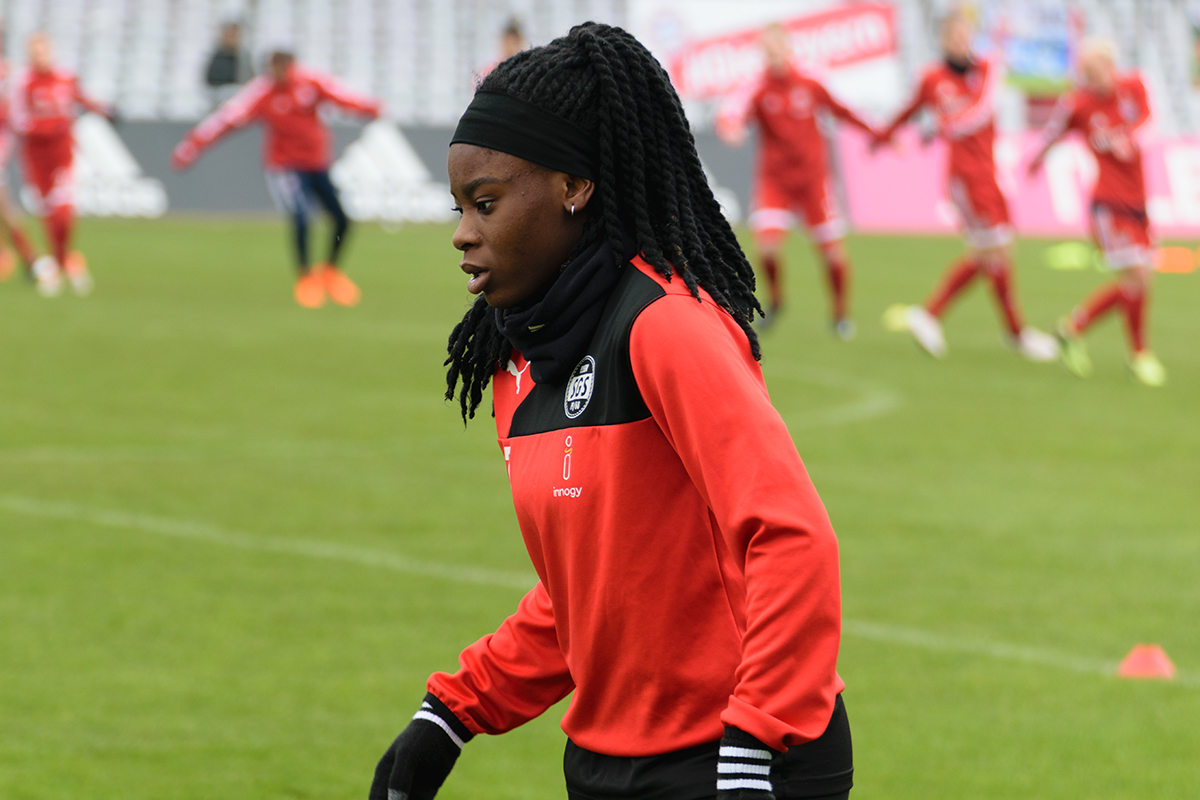 Nicole Anyomi warming up before FC Bayern vs SGS Essen